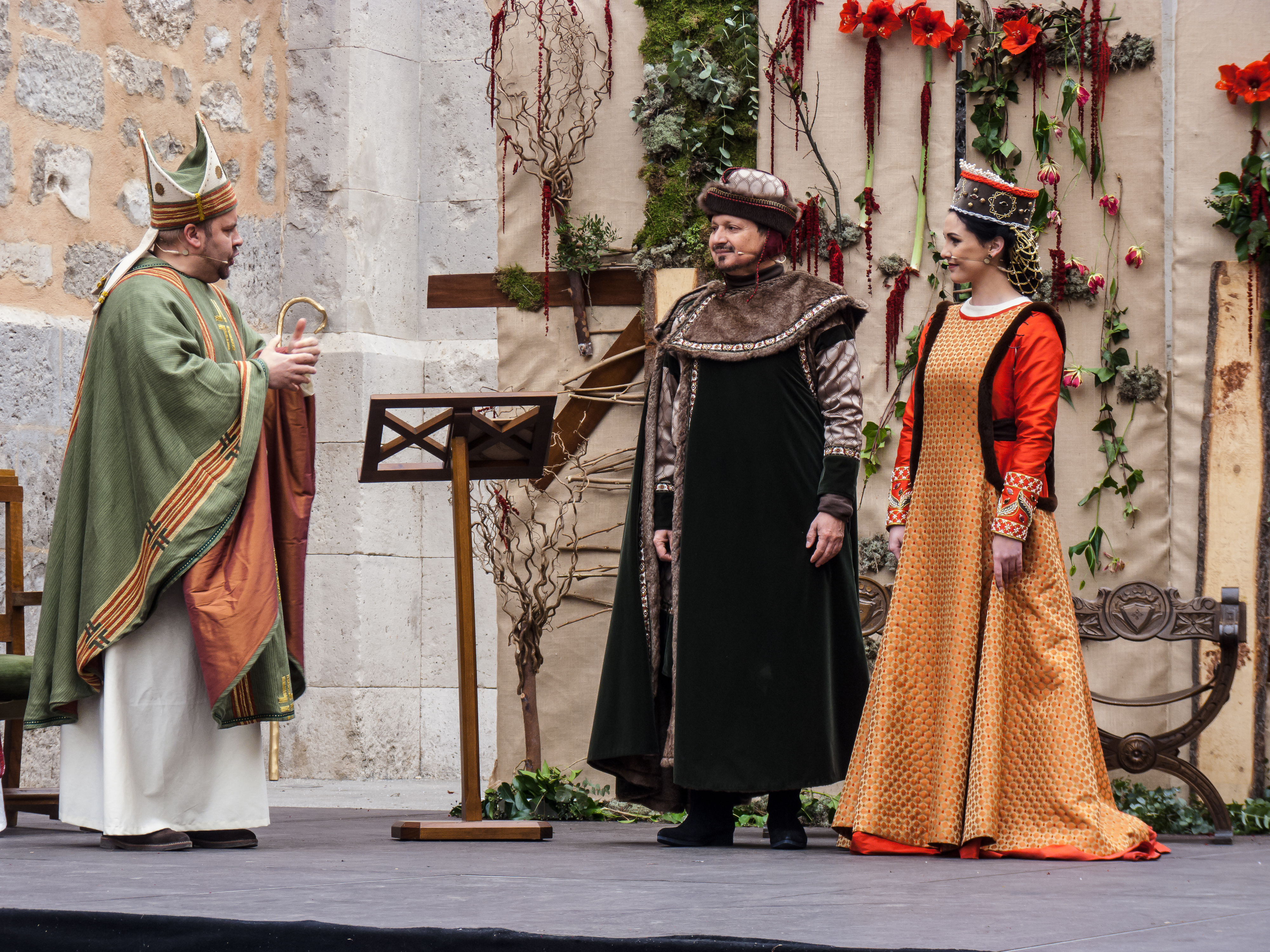 Bodas de Isabel de Segura. Teruel This is a photography of a Folklore festival in Spain (Wikidata id Q23657061).